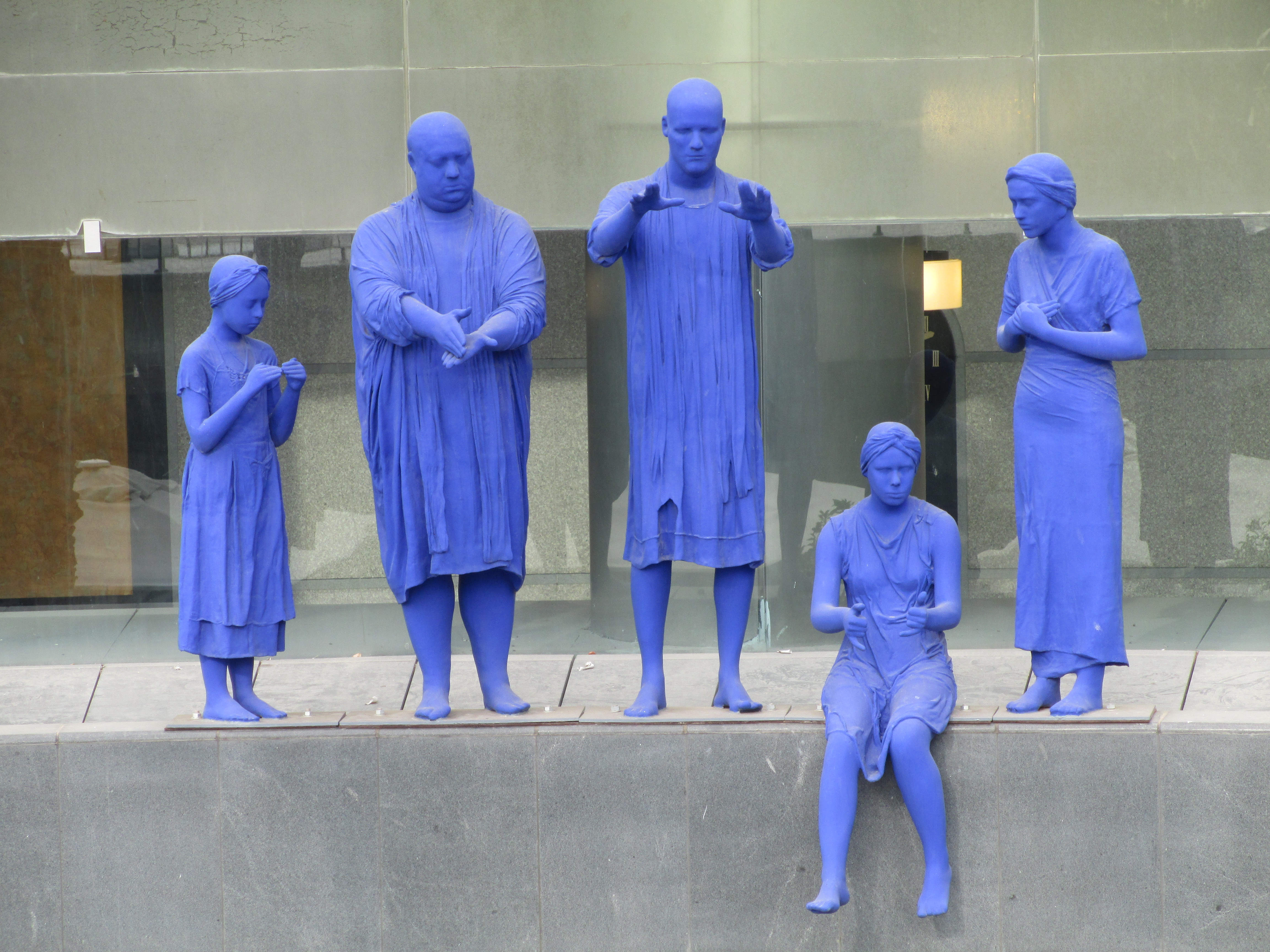 Sculpture of choir with music of signals in Tel Aviv